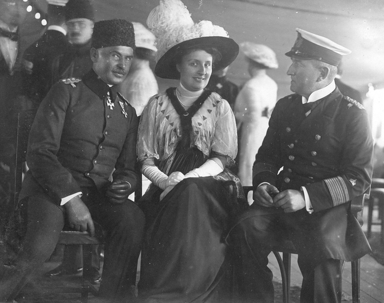 Otto Liman von Sanders (Liman Pascha), Liman's daugther and Admiral Wilhelm Anton Theodor Souchon (1864-1946) onboard SMS Goeben